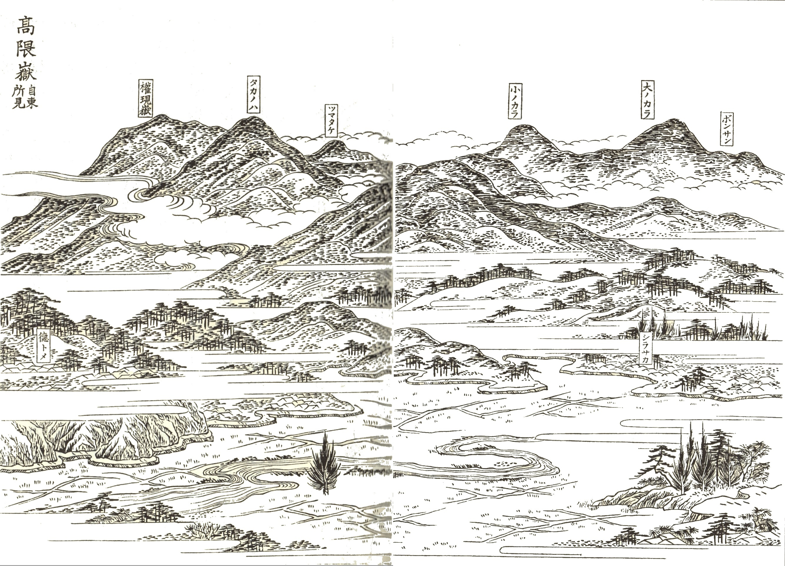 Takakuma Mountains in the 19th Century (Takakuma, Kanoya City, Kagoshima, Japan)